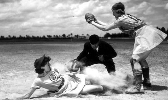 Local call number: c009833 Title: [All American Girls Professional Baseball League player Marg Callaghan sliding into home plate as umpire Norris Ward watches : Opalocka, Florida] Date: Photographed on April 22, 1948. Physical descrip: 1 photoprint : b&w ; 4 x 5 in. Series Title: (Department of Commerce collection) General Note: Accompanying note: "Single Slide-only one slider. Hook slide into home plate during Ft. Wayne inter-team practice game on Opalocka diamond: Marg Callaghan, 26, from Vancouver (5th year in league 4th coming up with Ft. Wayne) as second baseman, slides in on close play--umpire Norris Ward whose 4th year in league is coming up, watches play closely. Vivian Kellog, catcher from Jackson, Mich., reaches for ball coming in fast." Repository: 500 S. Bronough St., Tallahassee, FL 32399-0250 USA. Contact: 850-245-6700. Persistent URL